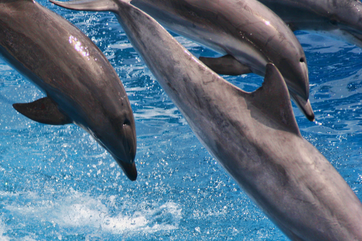 Blue Horizons (Dolphin Stadium): This show features Bottlenose dolphins, various birds of flight, Pacific short-finned pilot whales, and aerialists. SeaWorld San Diego Theme Park